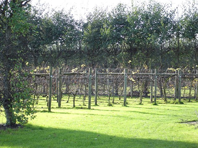 Bearsted Vineyard. On the west side of Caring Lane.